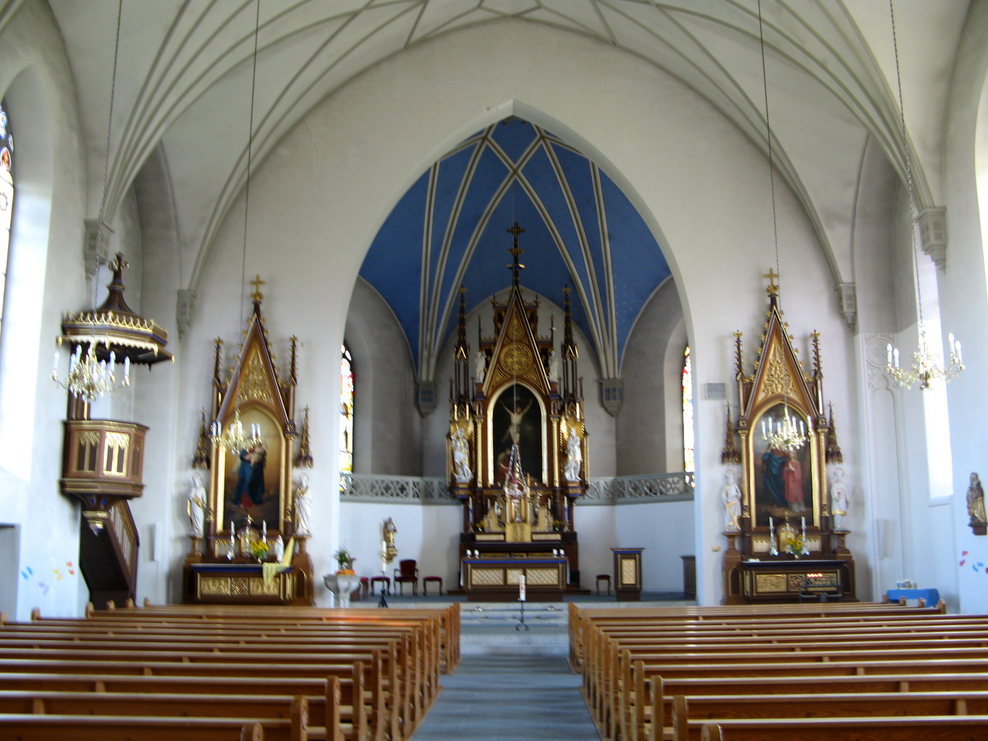 Interior view of St George's parish church in Bünzen